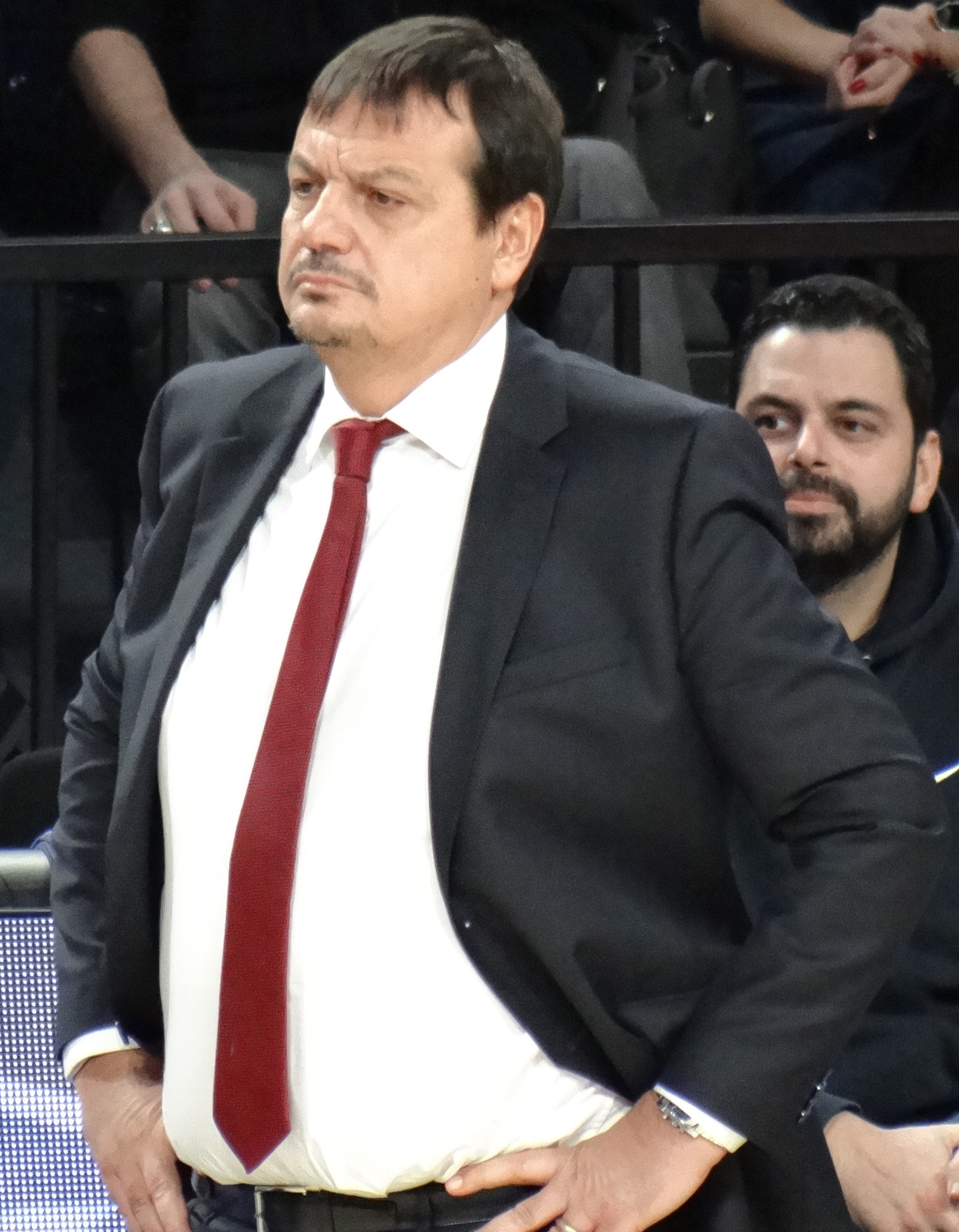 Ergin Ataman Anadolu Efes 20180119